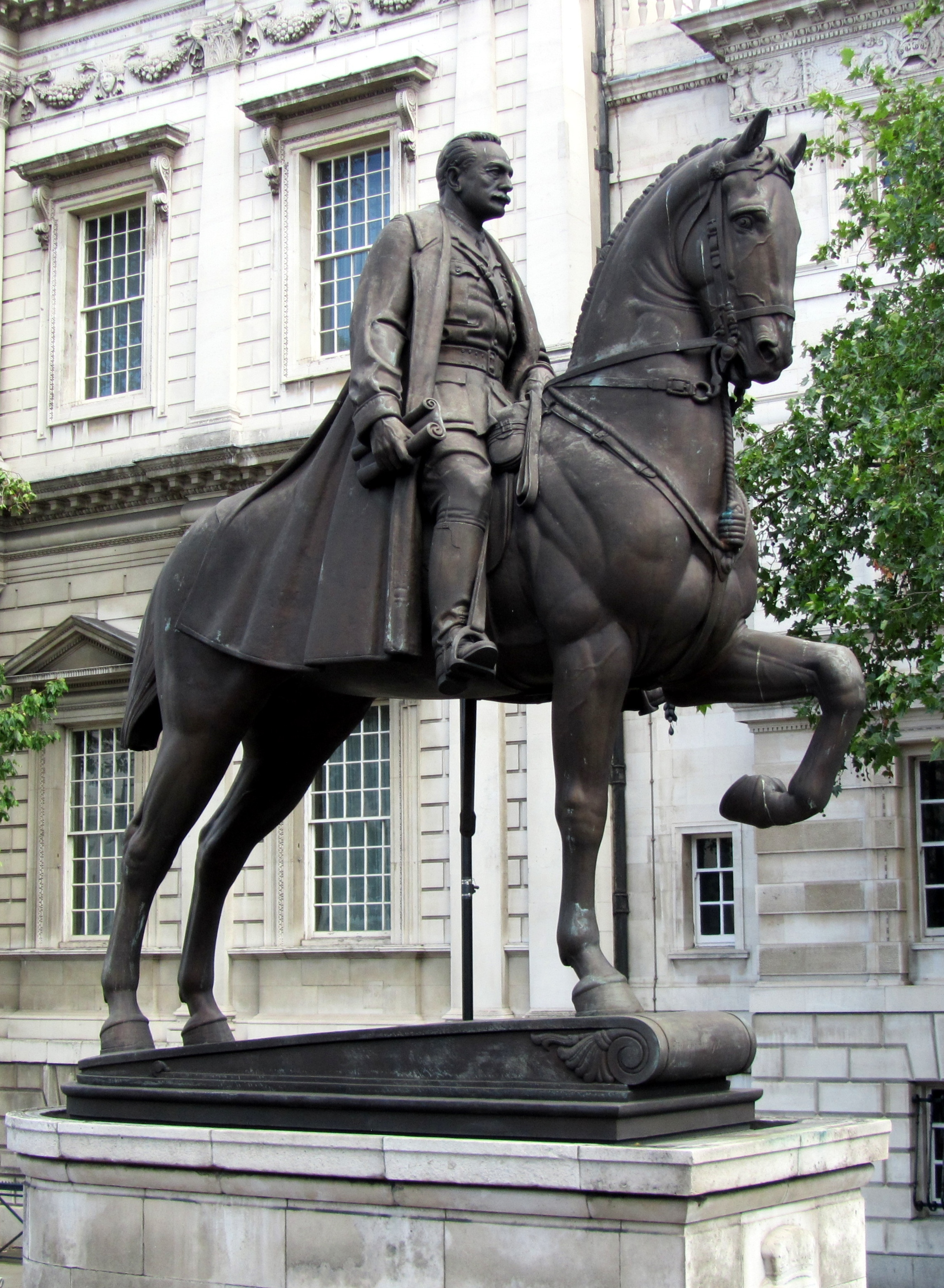 Earl Haig Memorial, Whitehall, London. Sculpted by Alfred Frank Hardiman